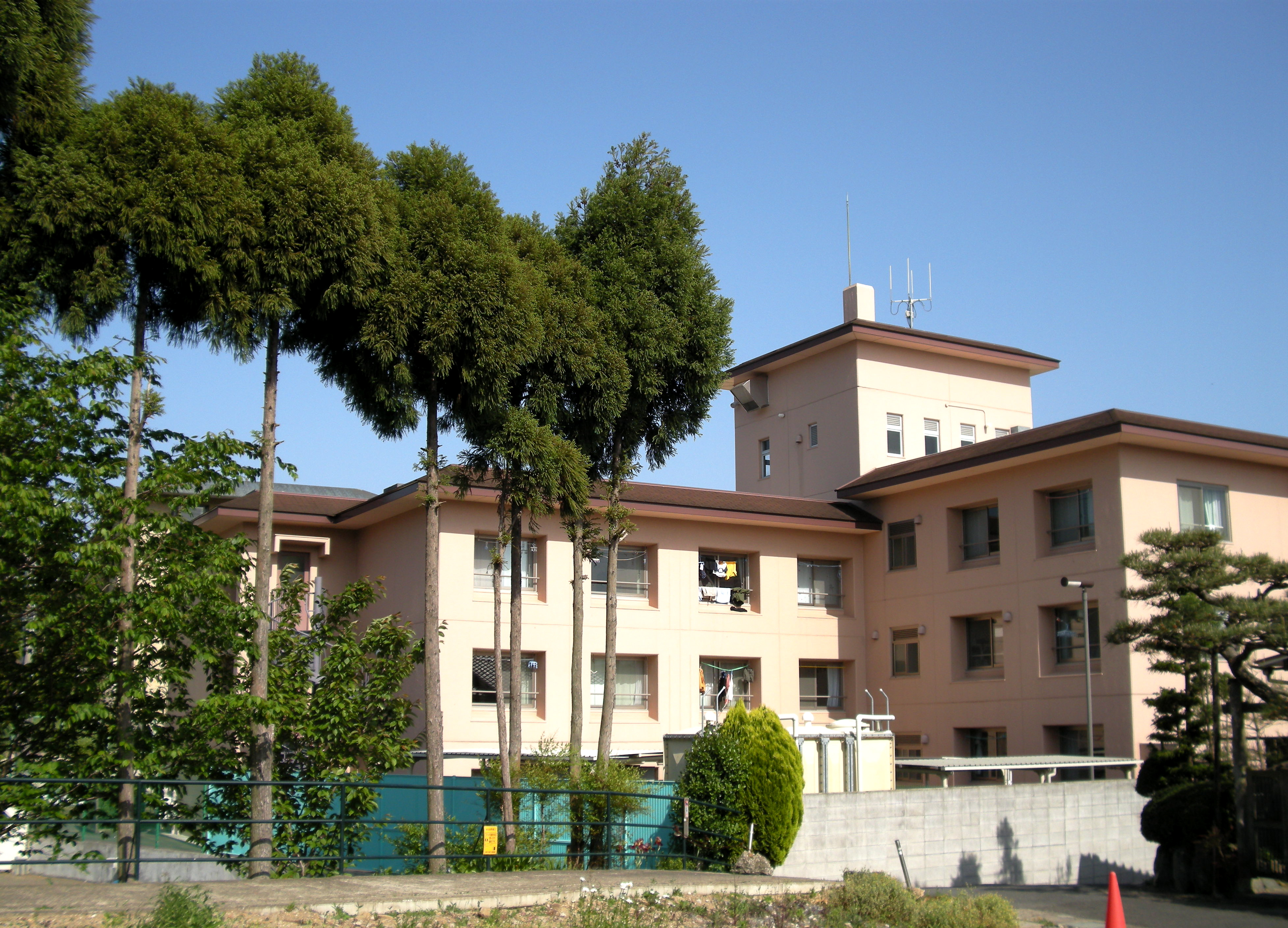 Rits International House I (2) (Ritsumeikan University, Kyoto, Japan)